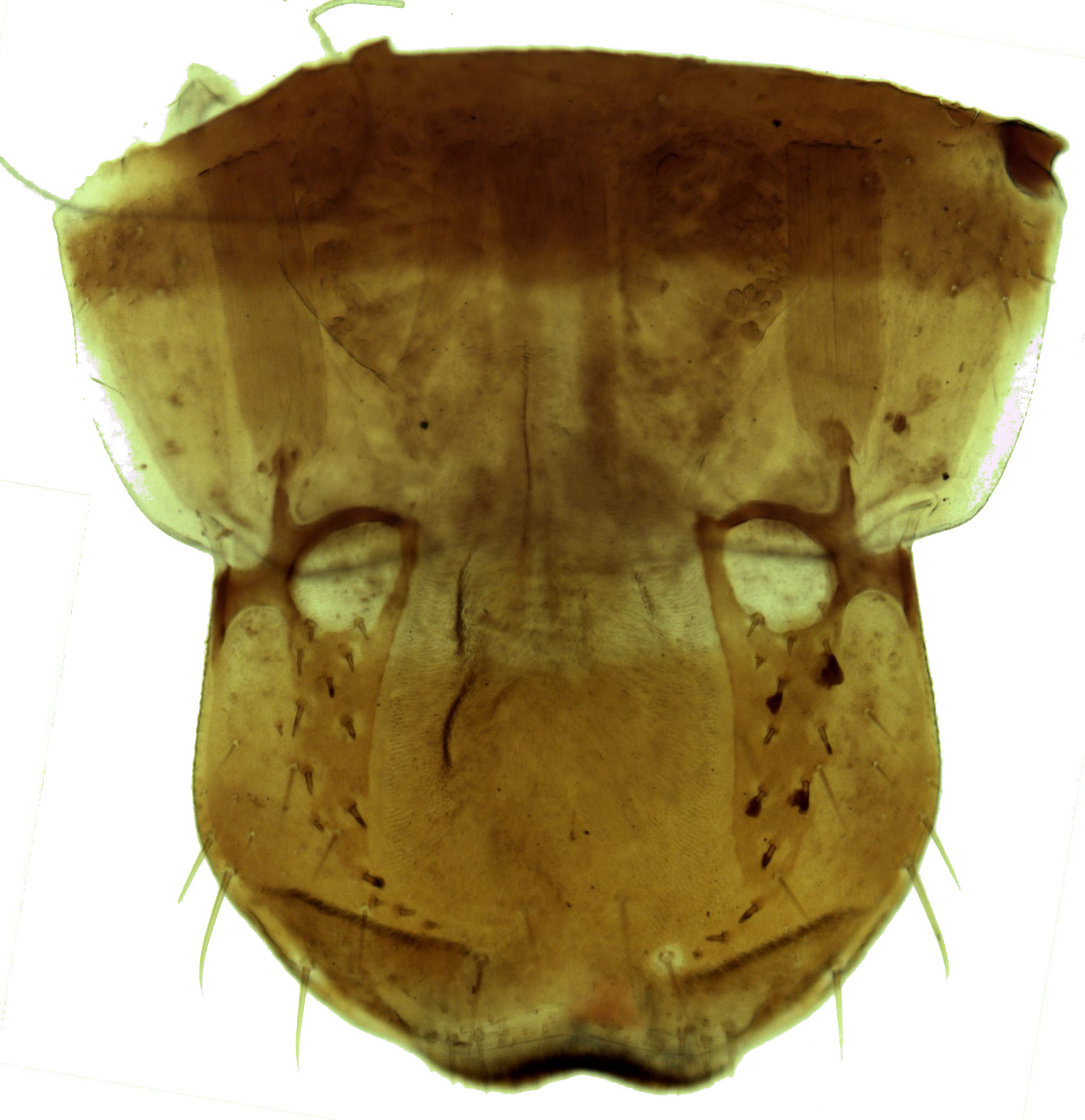 Labrum of Periplaneta americana